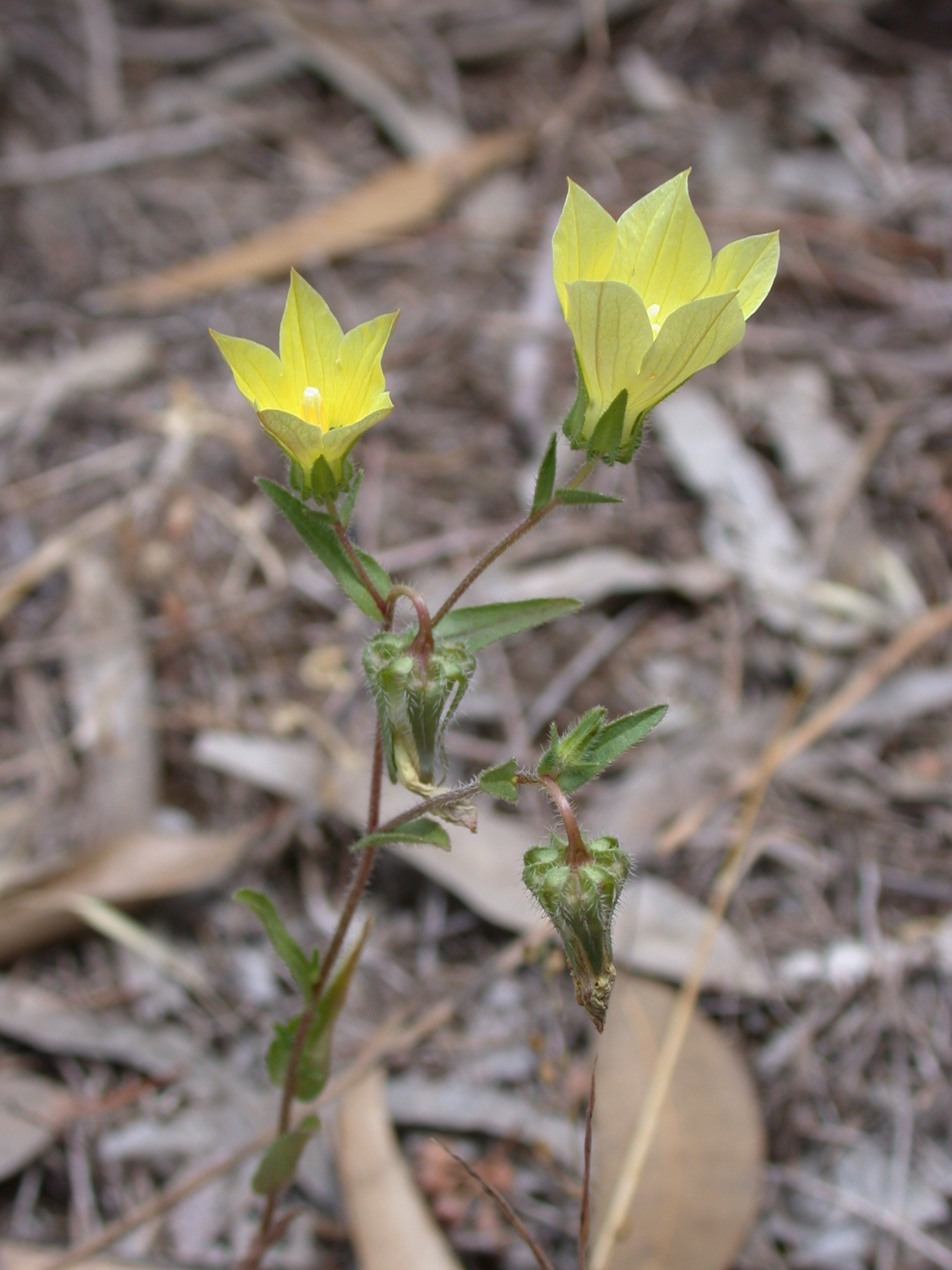 Campanula sulphurea Boiss., Sharon, Israel, May 2, 2009.